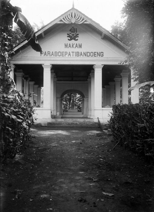 House with the graves of Bandung's Regents